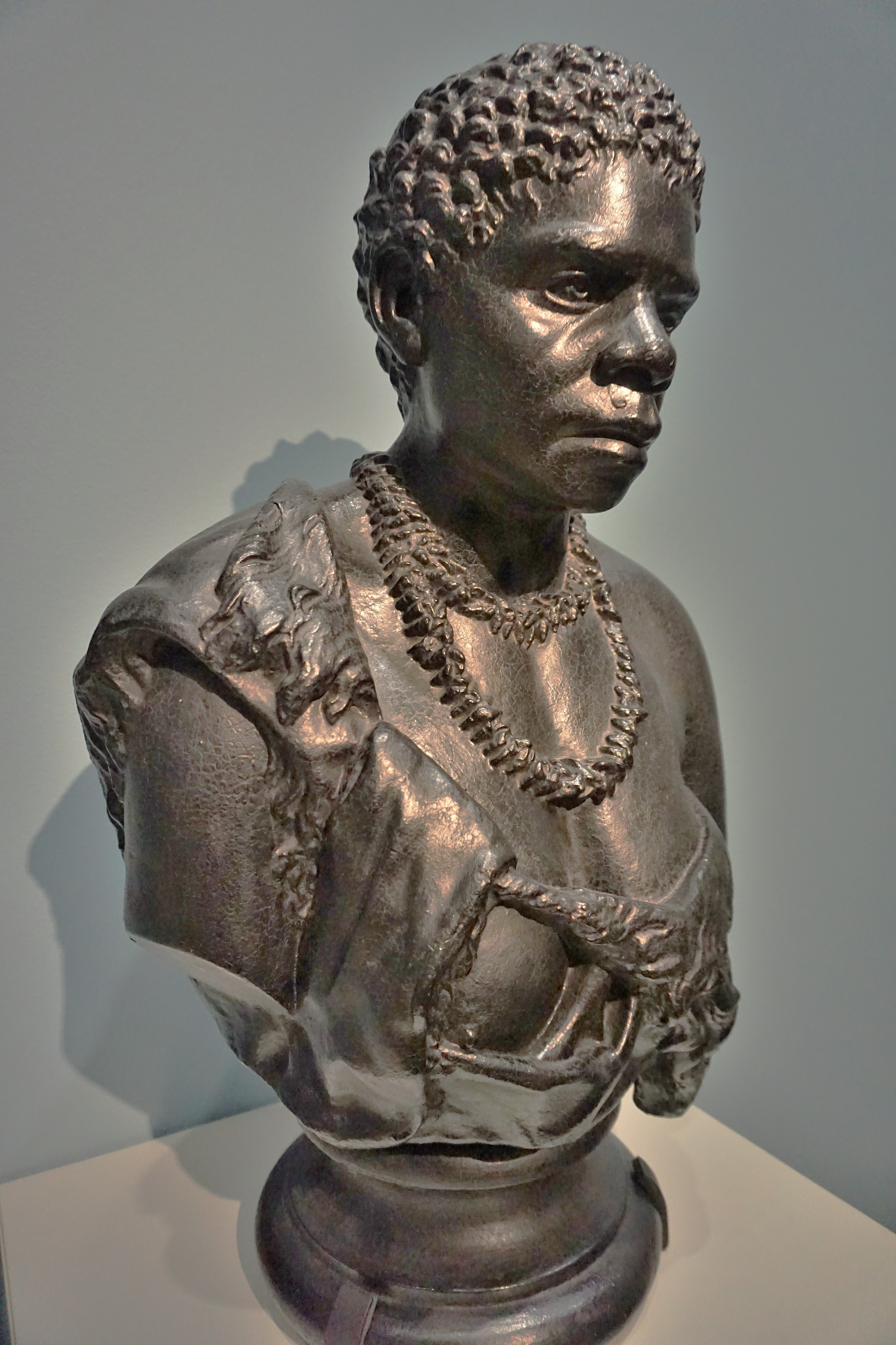 Trucaninny, Wife of Woureddy by Benjamin Law, National Portrait Gallery, Canberra, Australia